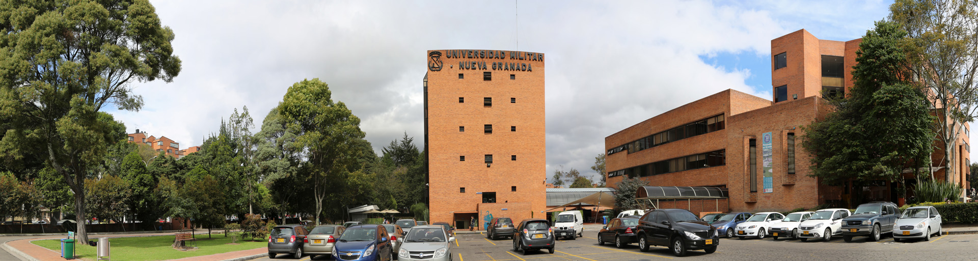 New Granada Military University Panoramic Photo #1